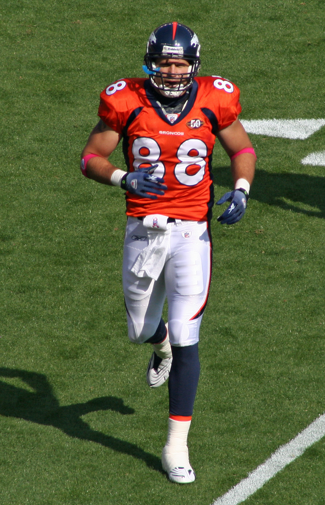 Tony Scheffler, a player on the Denver Broncos American football team.